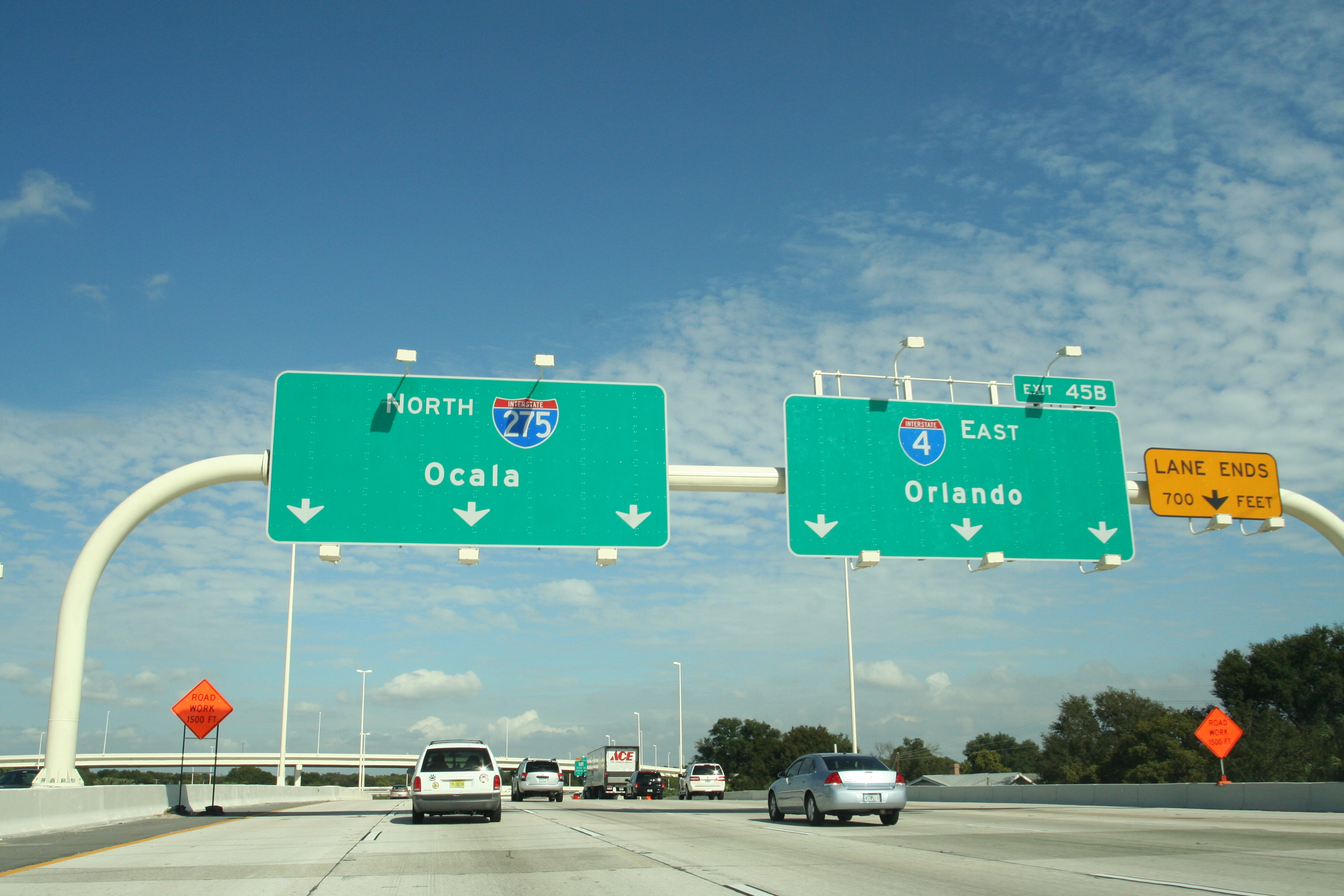 Interstate 275, approaching the Interstate 4 exit in downtown Tampa, Florida.